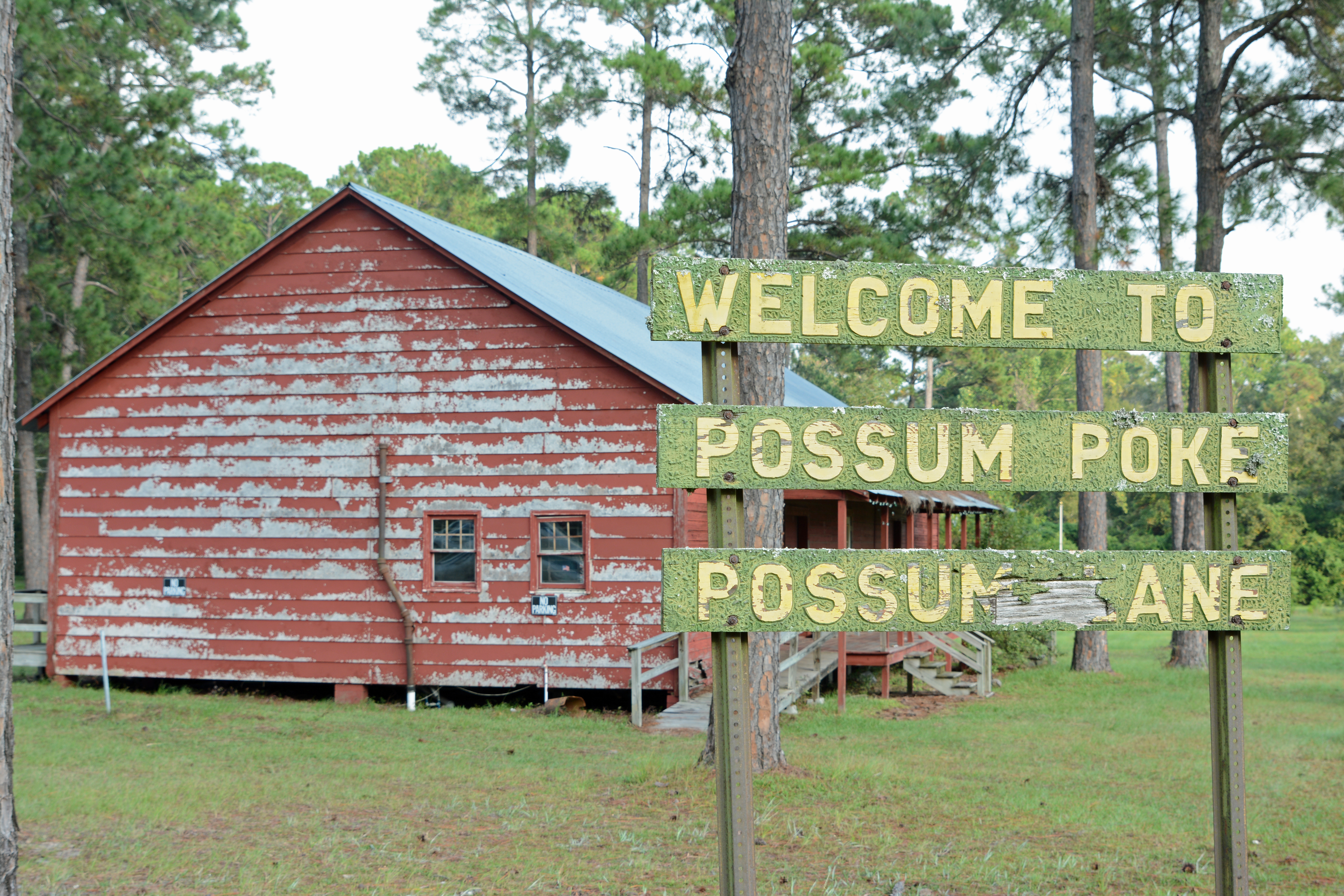 Welcome sign for Possum Poke, Poulan, Georgia, US. The sign is in front of one of the buildings.